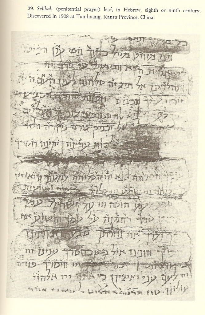 Selihah (penitential prayer) leaf, in Hebrew. Discovered in 1908 in the Dunhuang Caves of Gansu Province, China.